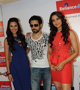 Emraan Hasmi, Esha Gupta & Bipasha Basu in Reliance Digital, Panchvati Ahmedabad to Promote their upcoming movie Raaz 3